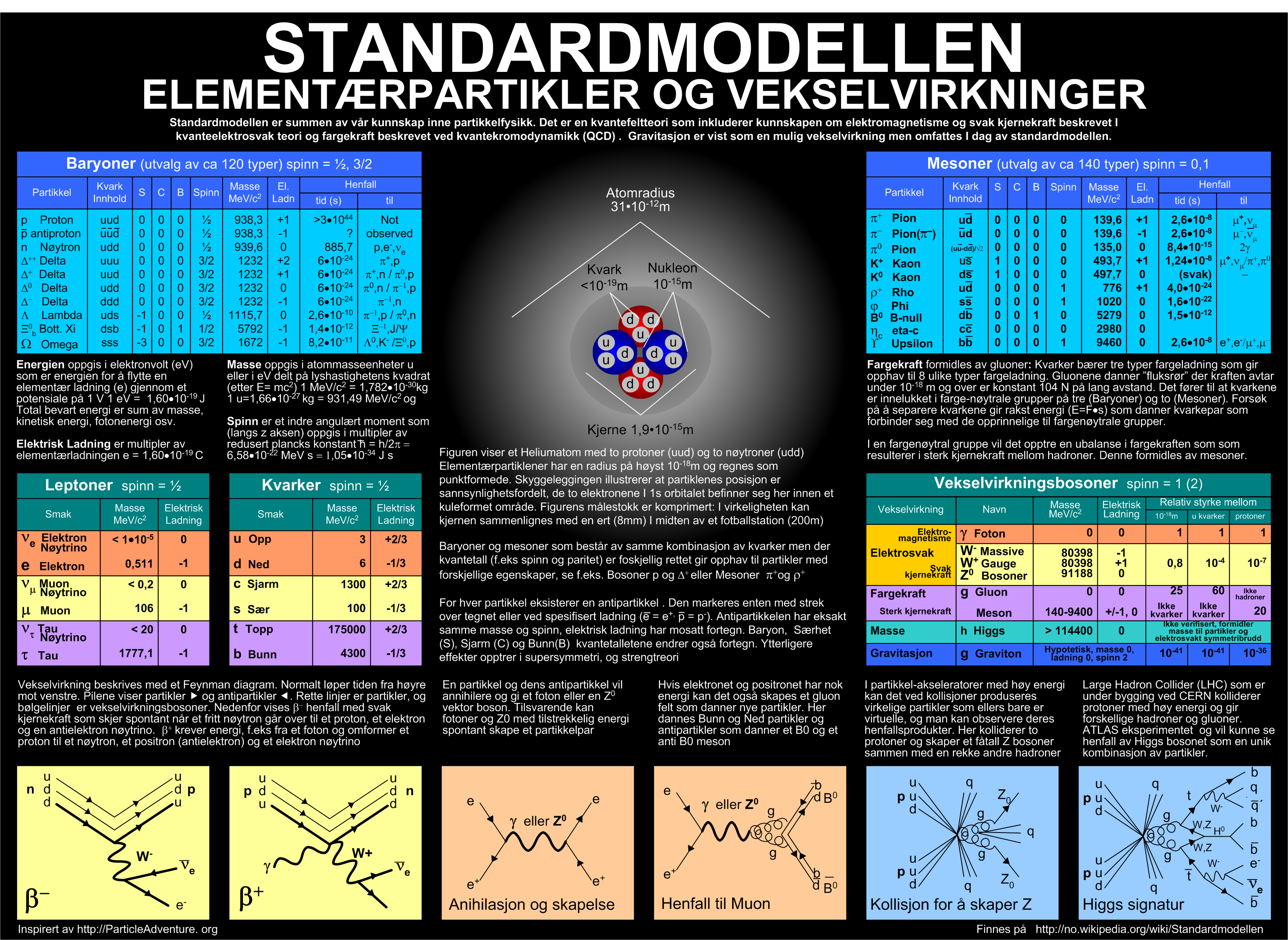 Particles and interactions in the standard model, Norwegian